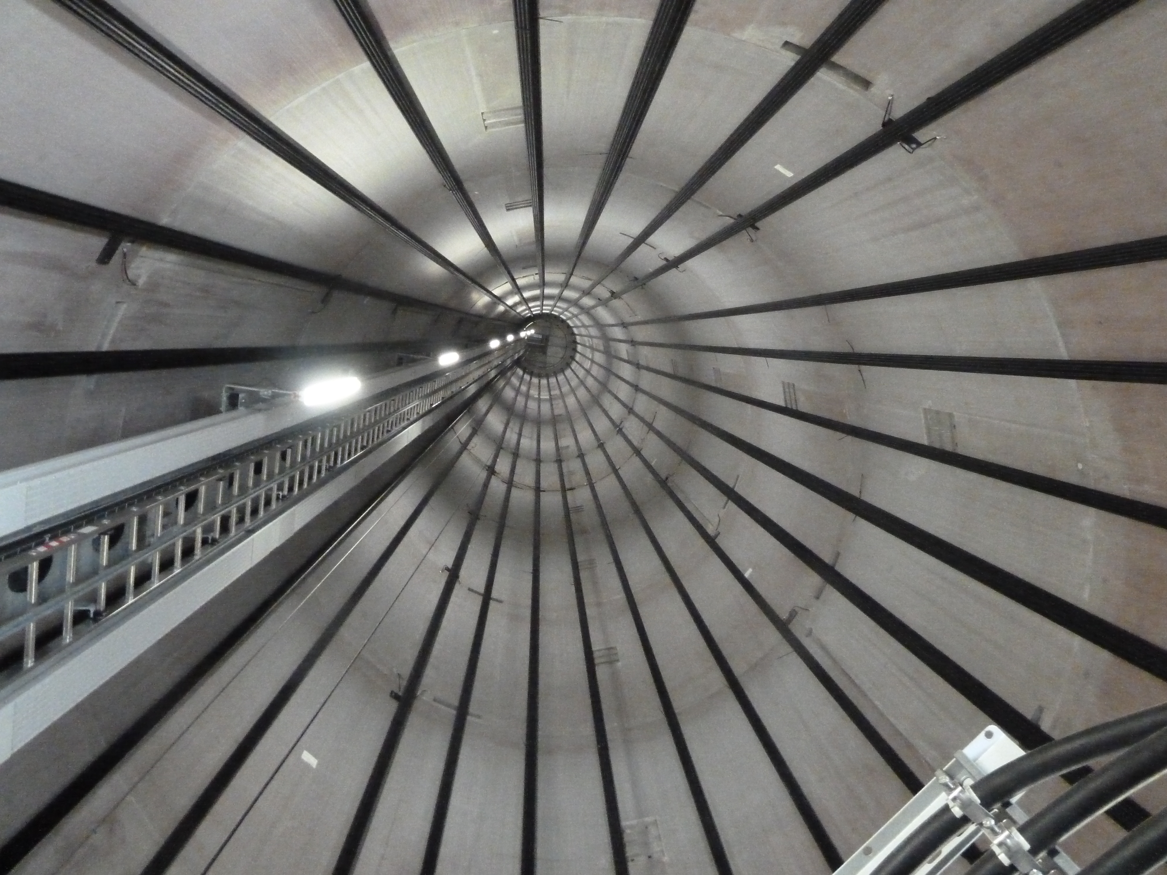 Tendons (stressed cables) inside the tower of a wind turbine